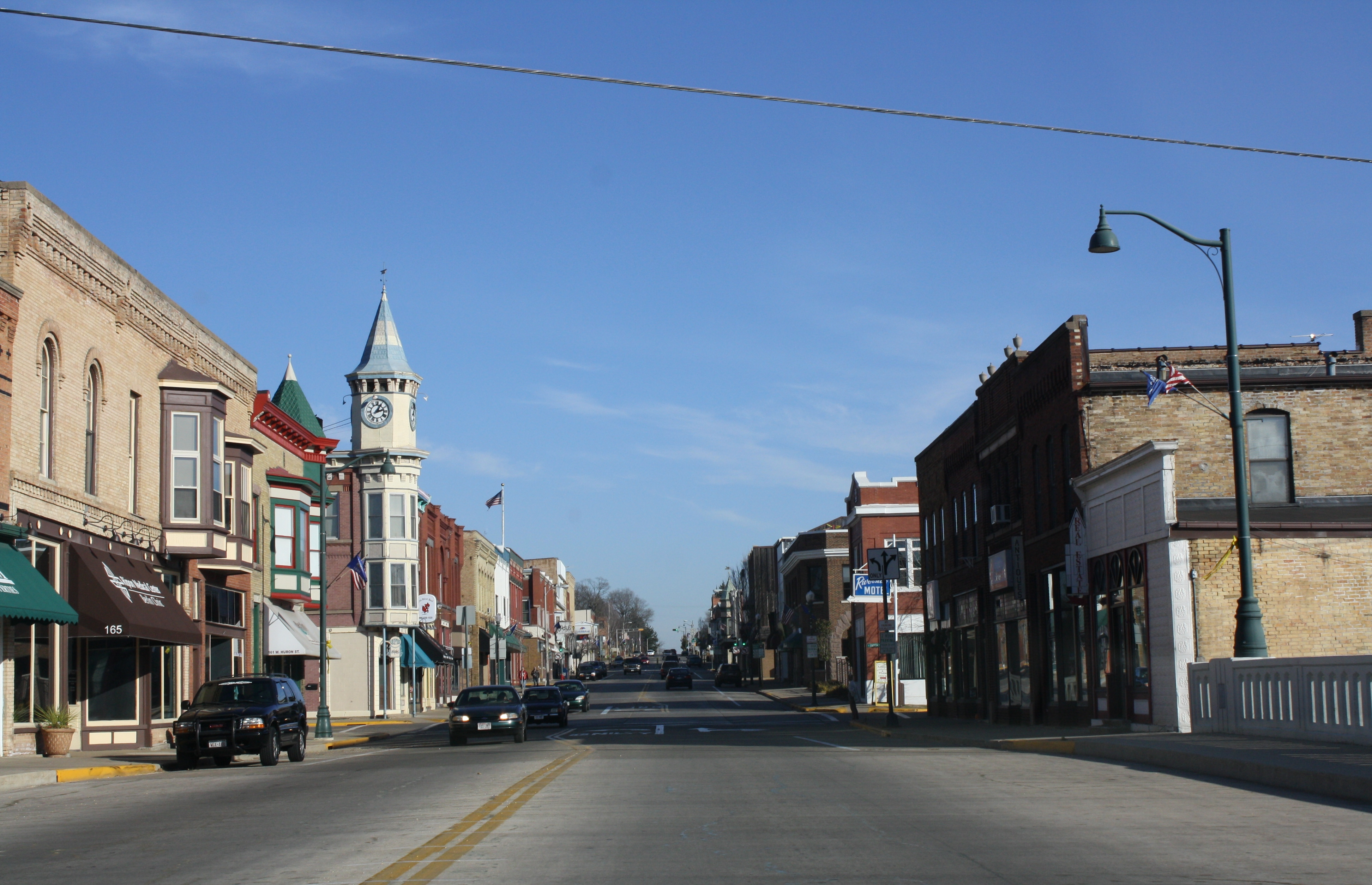 The Huron Street Historic District in Green Lake, Wisconsin on Wisconsin Highway 49, listed on the National Register of Historic Places.